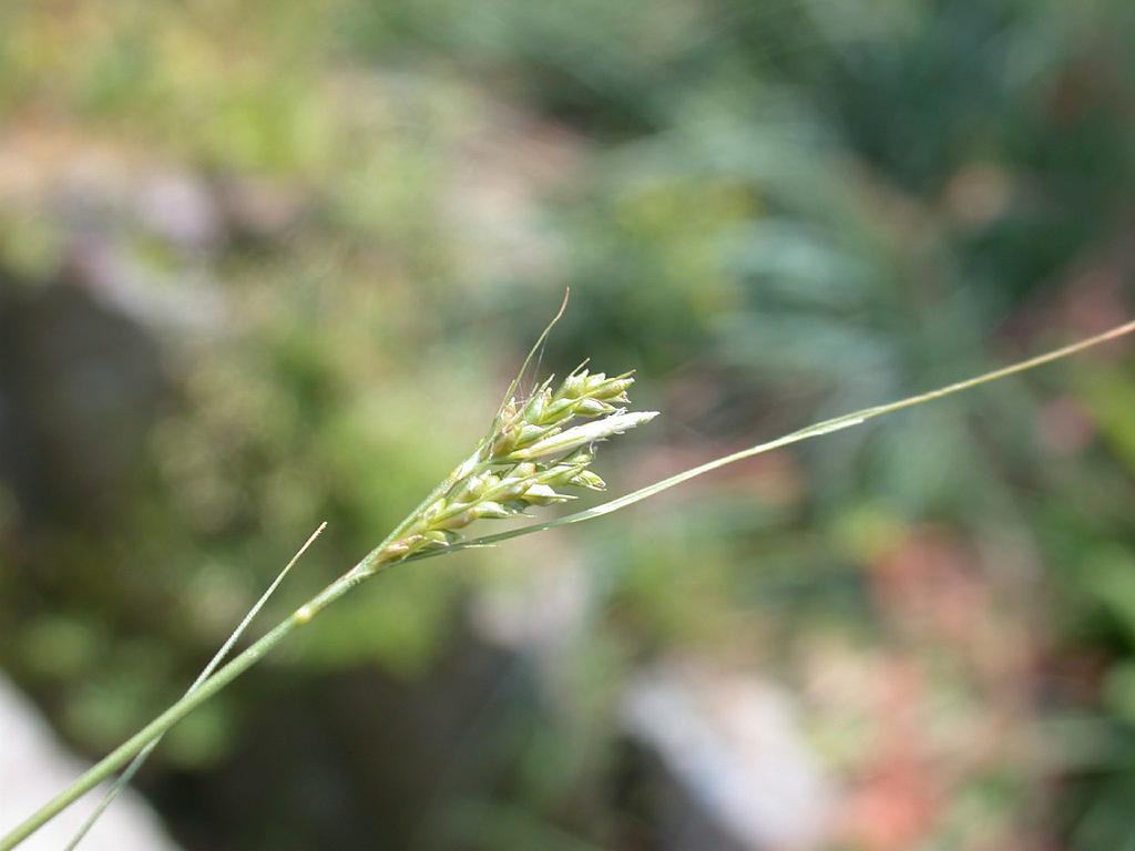 Carex mitrata var. aristata (Cyperaceae) Japanese name:Nogenukasuge date:2007.04.12:roadside,Tanabe city,Wakayama pref.Japan Author;Keisotyo